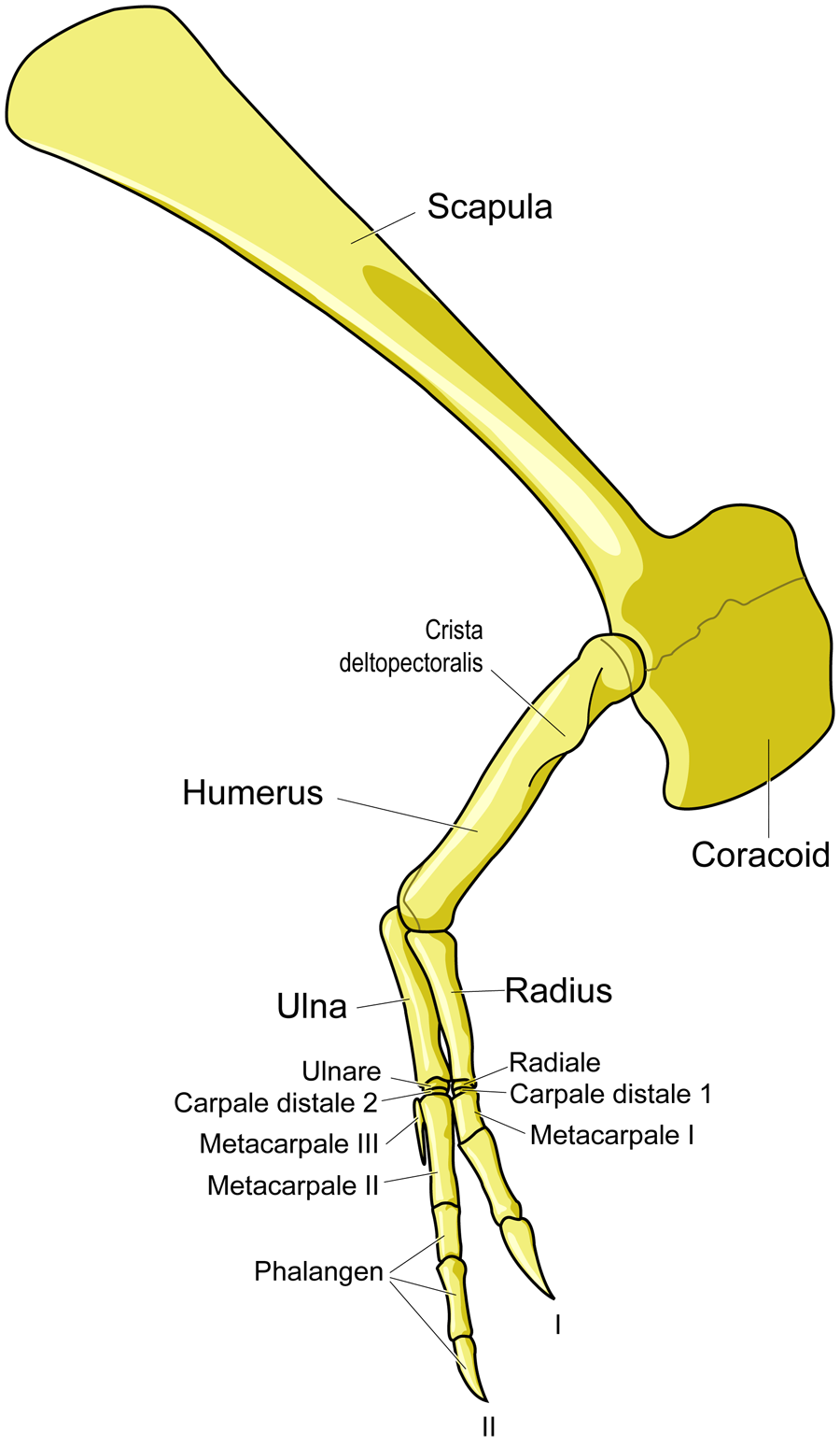 Drawing of the right forelimb and pectoral girdle elements of the holotype skeleton (CMN 2120) of the tyrannosaurid theropod dinosaur Gorgosaurus libratus LAMBE 1914 from the Campanian (Upper Cretaceous) of Alberta (Canada). The length of the scapulocoracoid is 1 m. After Lambe (1917).[1]